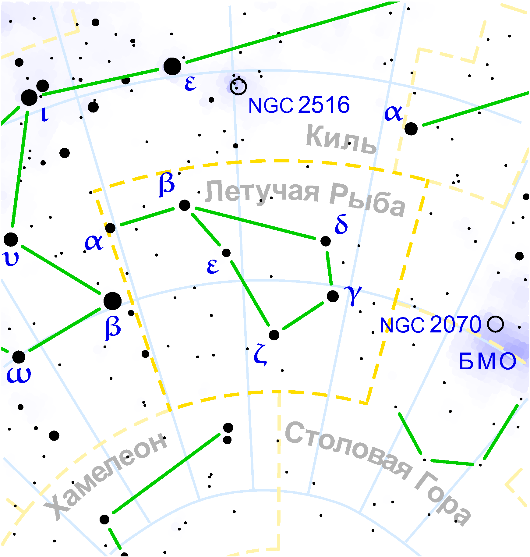 Volans constellation map in Russian